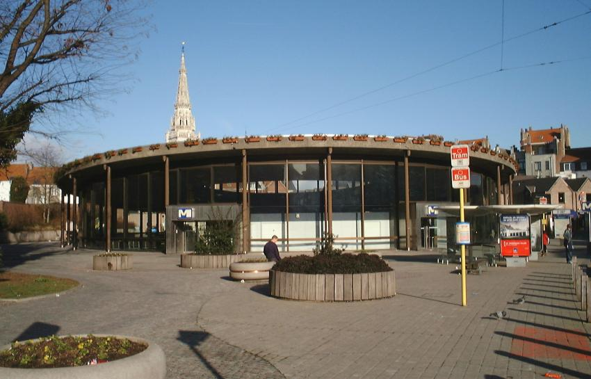 Entrance building of Sint-Guido / Saint-Guidon station, Brussels metro